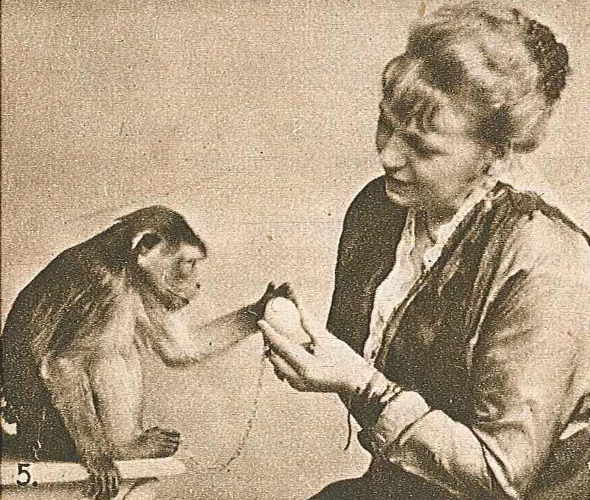 Margot Ryding (1880-1971), Swedish actress; seen here with a monkey named "Greve Jacco" with whom she performed in a play called Rita Cavallini.